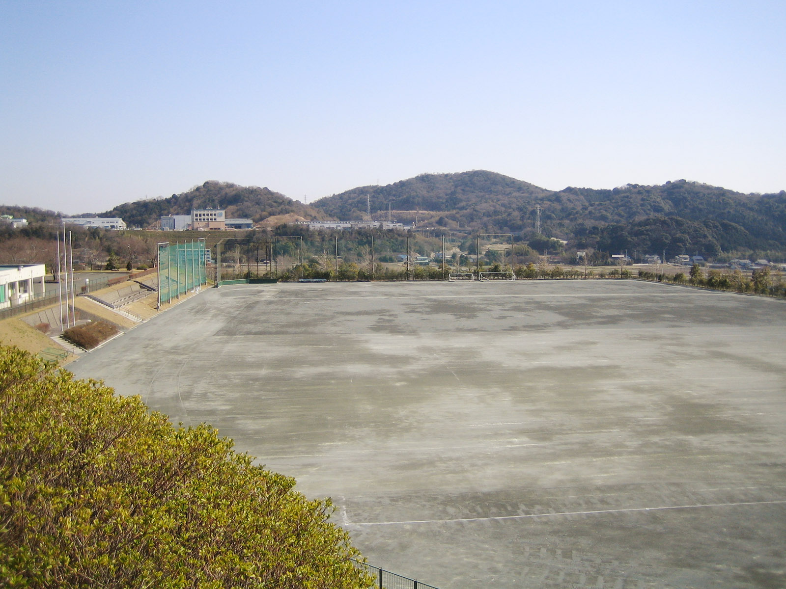 Otowa Town Field Park (音羽町運動公園), at Otowa, Aichi, Japan